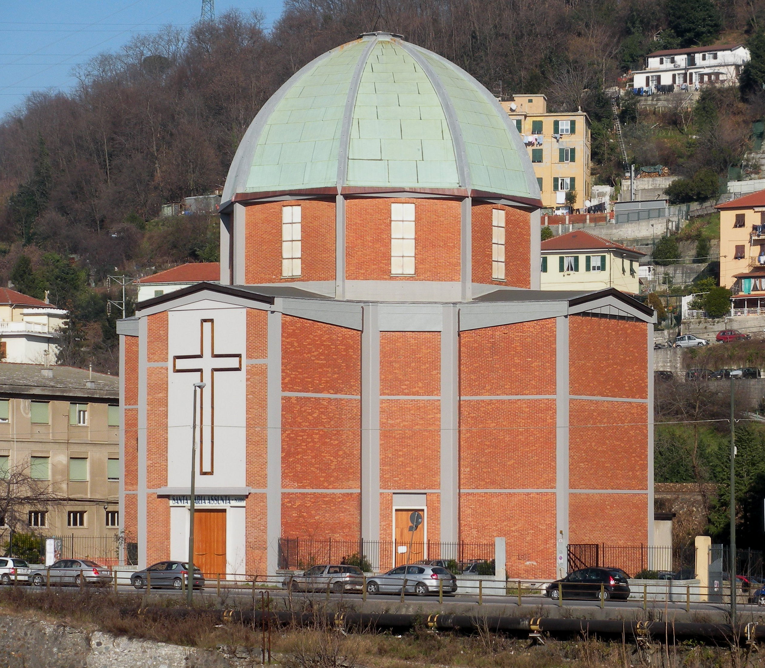 Genoa (Italy), quarter of Bolzaneto, the church of St. Mary at Serro